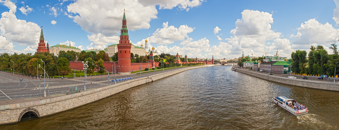 View to the Moscow Kremlin from Bolshoy Kamennyi bridge